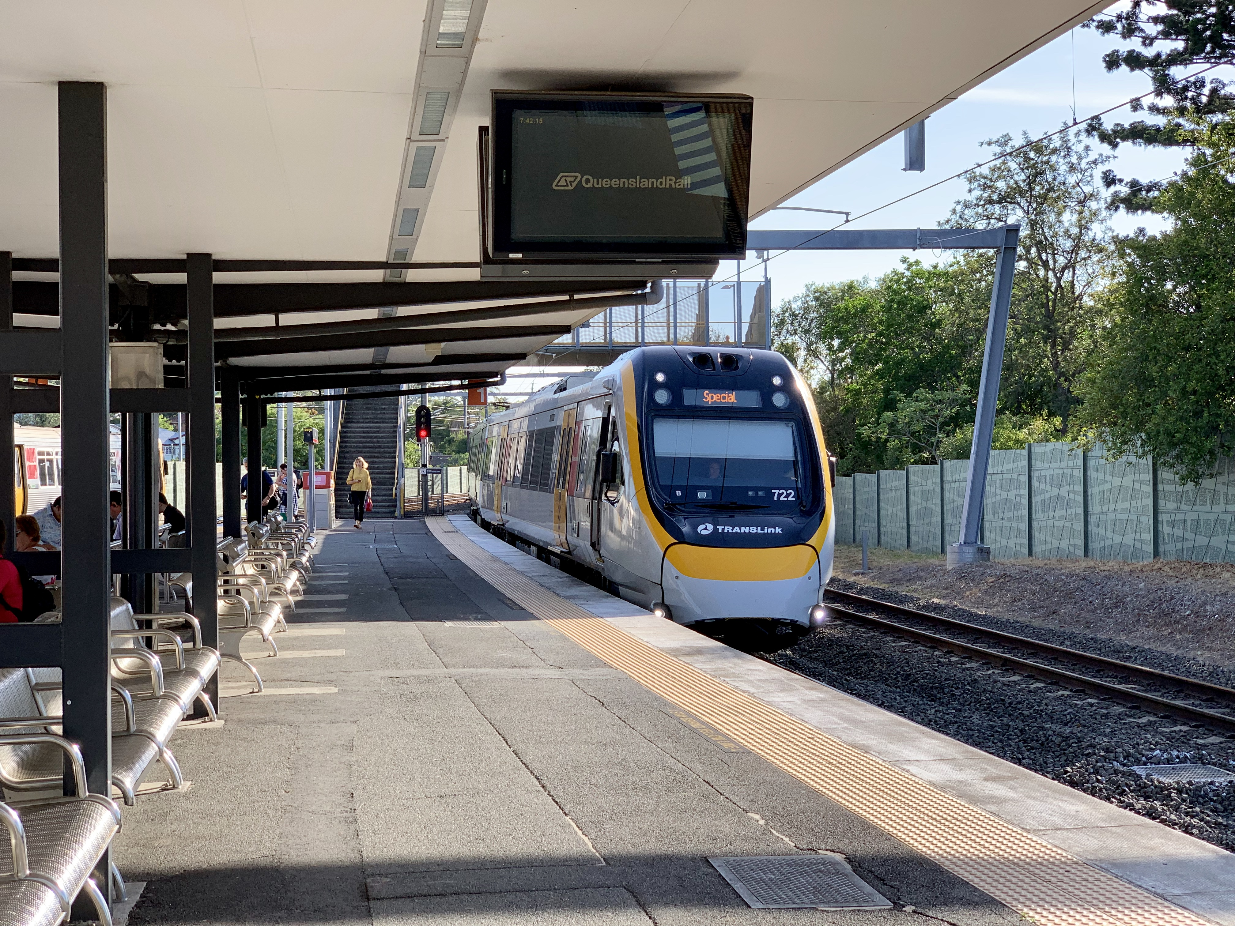 NGR722 approaching Oxley railway station, Brisbane